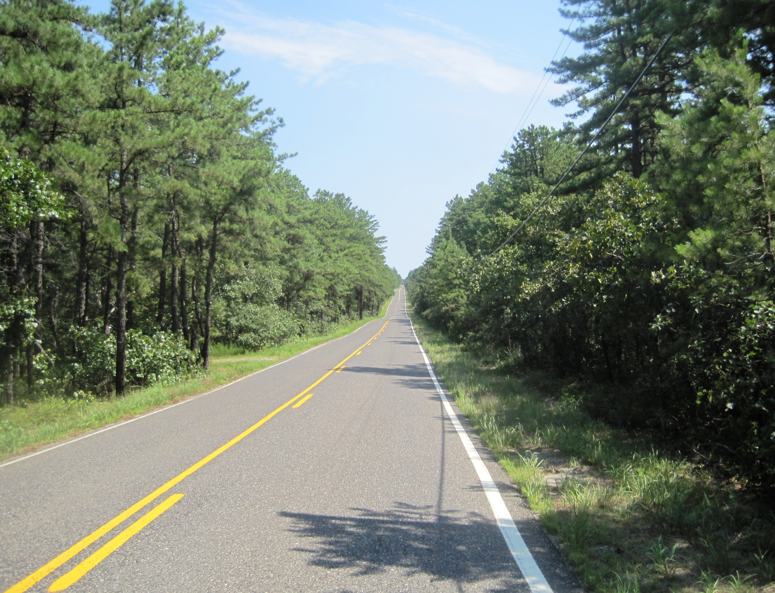 Photo showing Savoy Boulevard through the New Jersey Pine Barrens in Woodland Township.